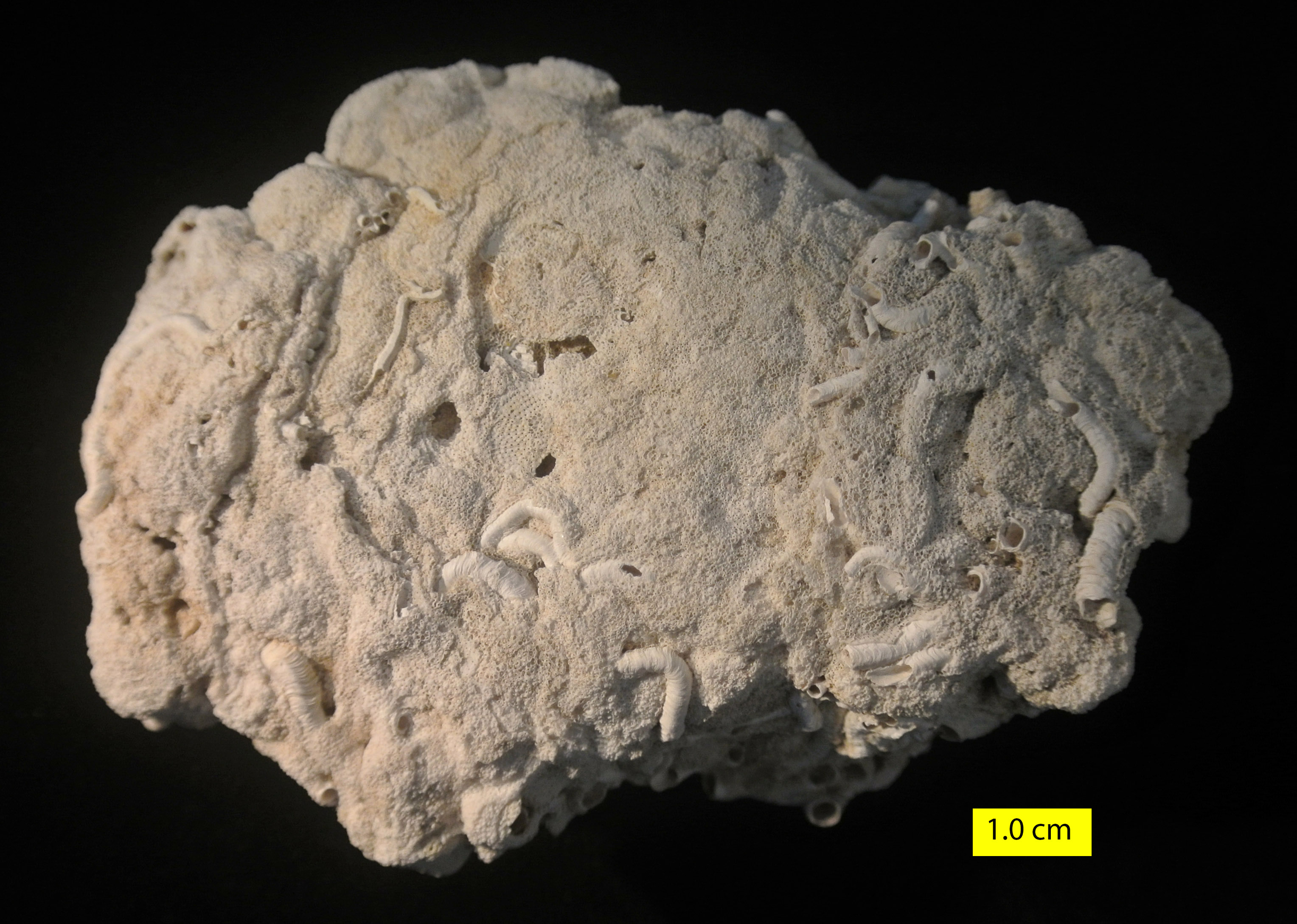 Cheilostome bryozoan with serpulid tubes; Recent; Cape Cod Bay, Duck Creek, near Wellfleet, Massachusetts; collected by H.A. Curran.